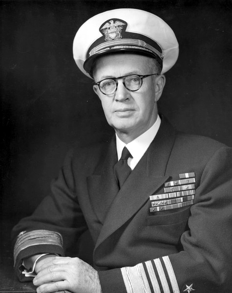 Robert B. Carney, 14th Chief of Naval Operations